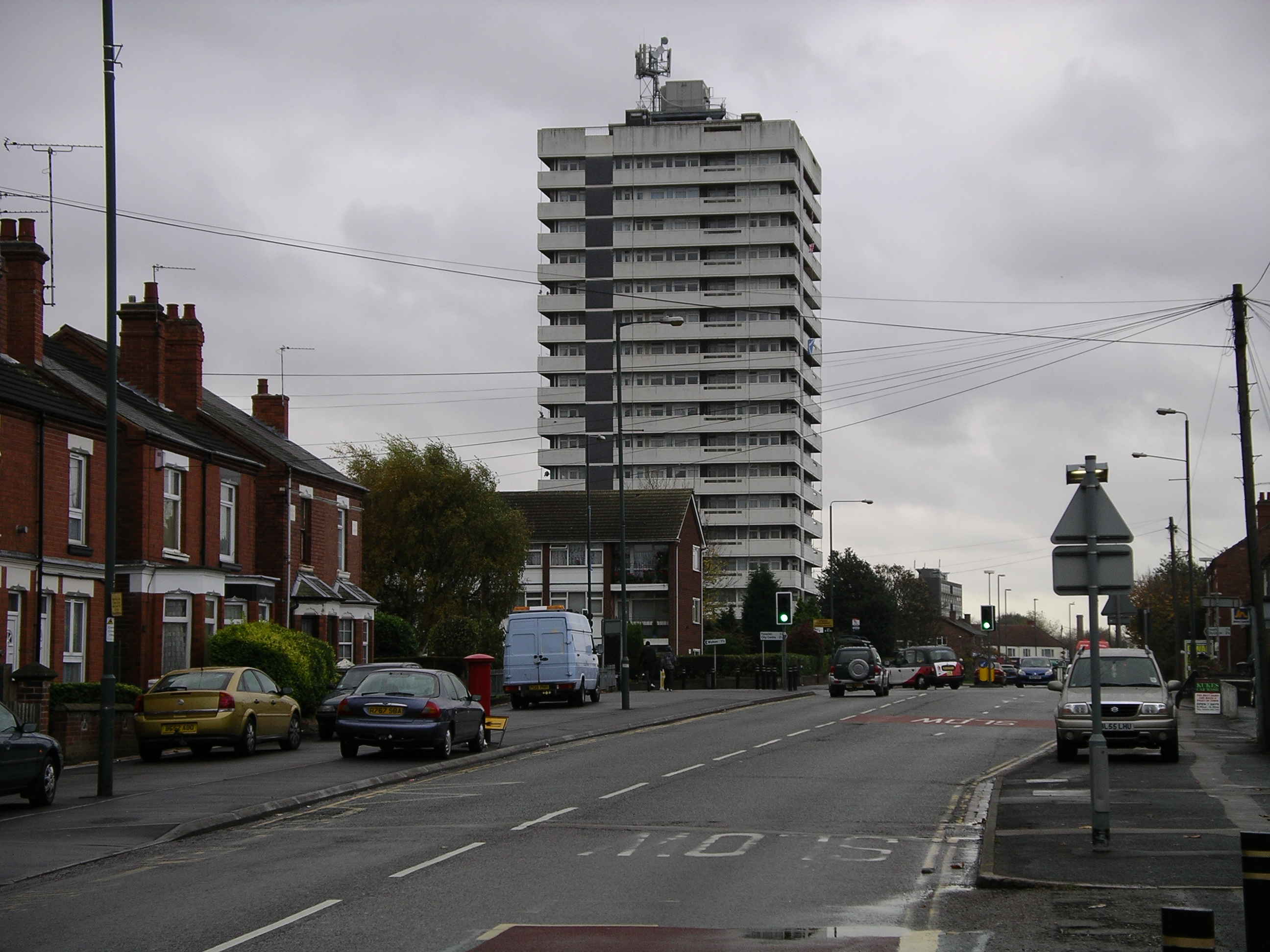 Longfield House, Bell Green Road, Courthouse Green, Coventry, England. View from the north showing the north side of the building.